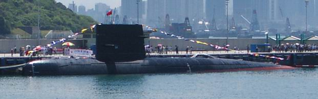 Photo taken by Kazec. Song Class Submarine No. 324 during PLAN visit in Hong Kong, May 2003